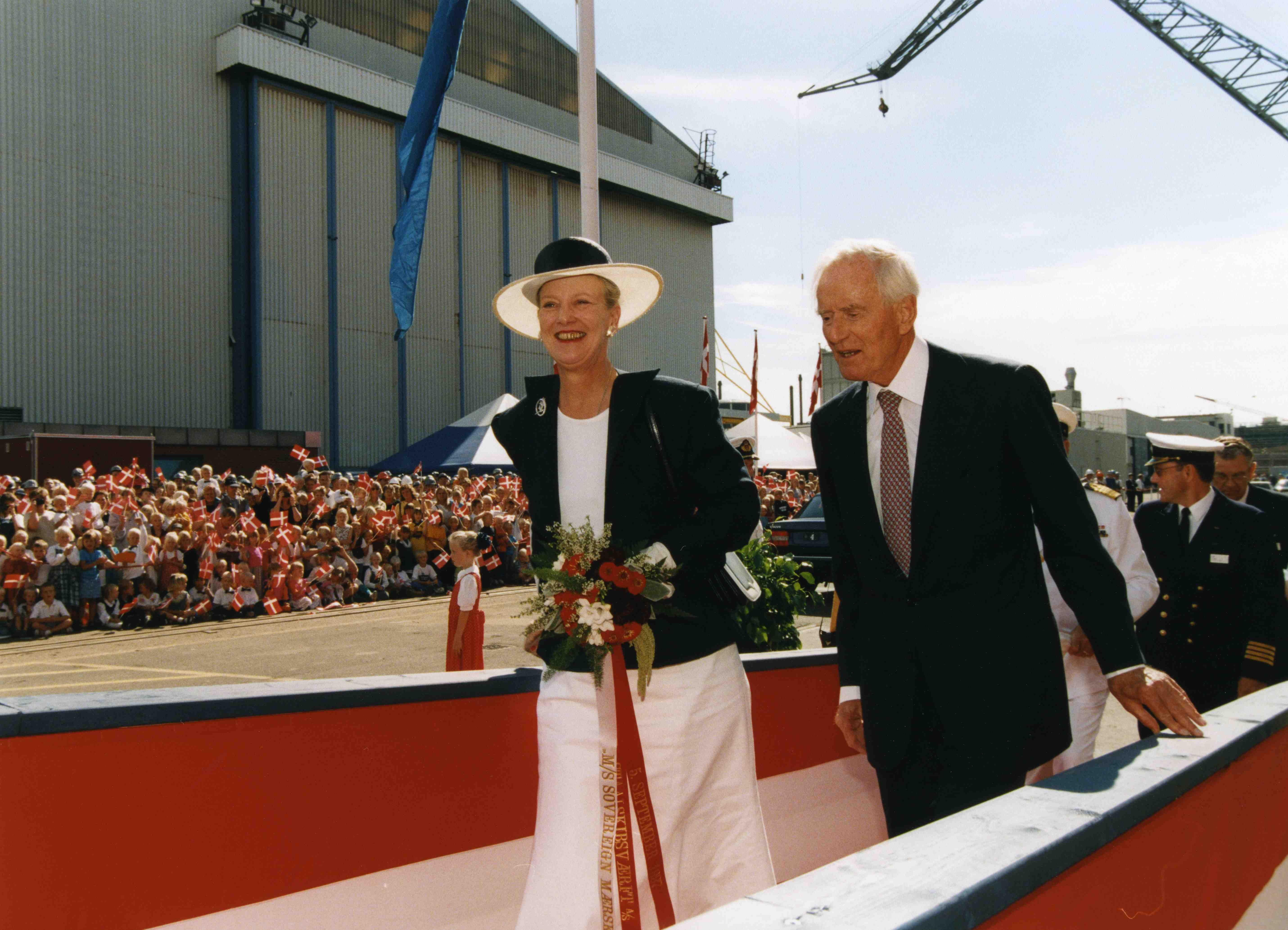 In 1997, Mærsk Mc-Kinney Møller and Danish Queen Margrethe II met again, this time for the inauguration of Sovereign Mærsk at the Lindø Shipyard.